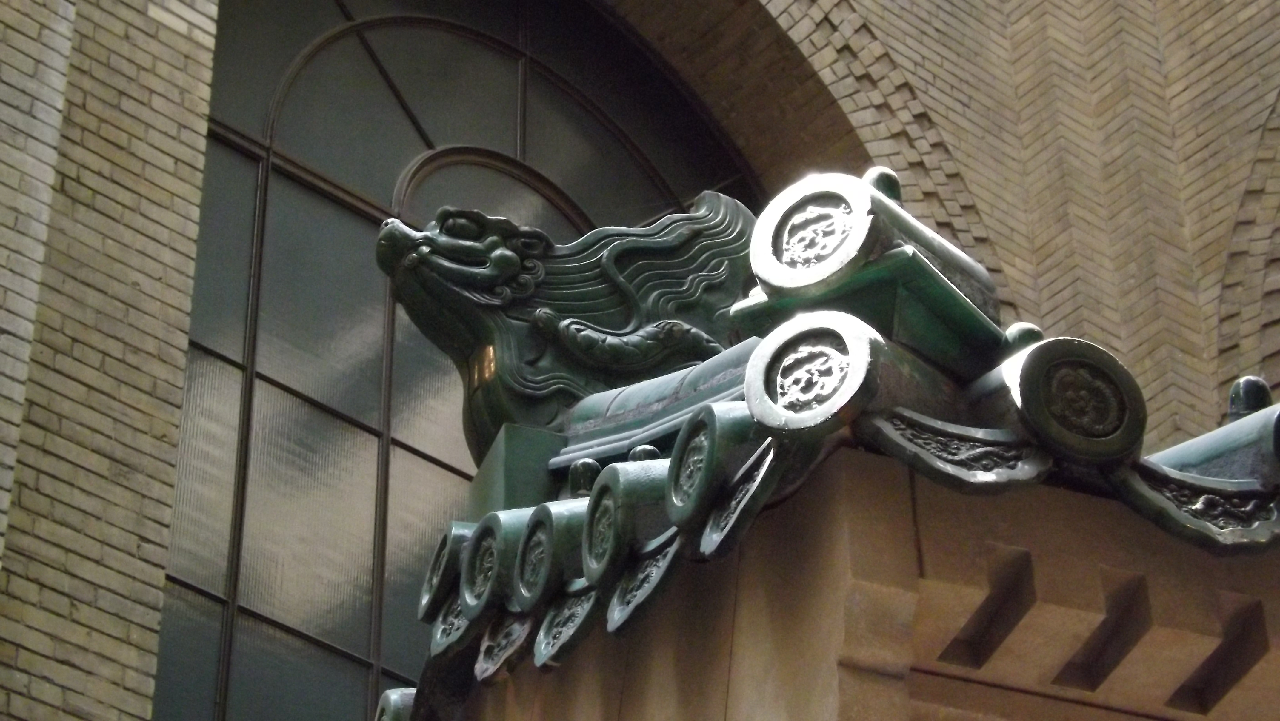 Archway, view from burial mound, Royal Ontario Museum